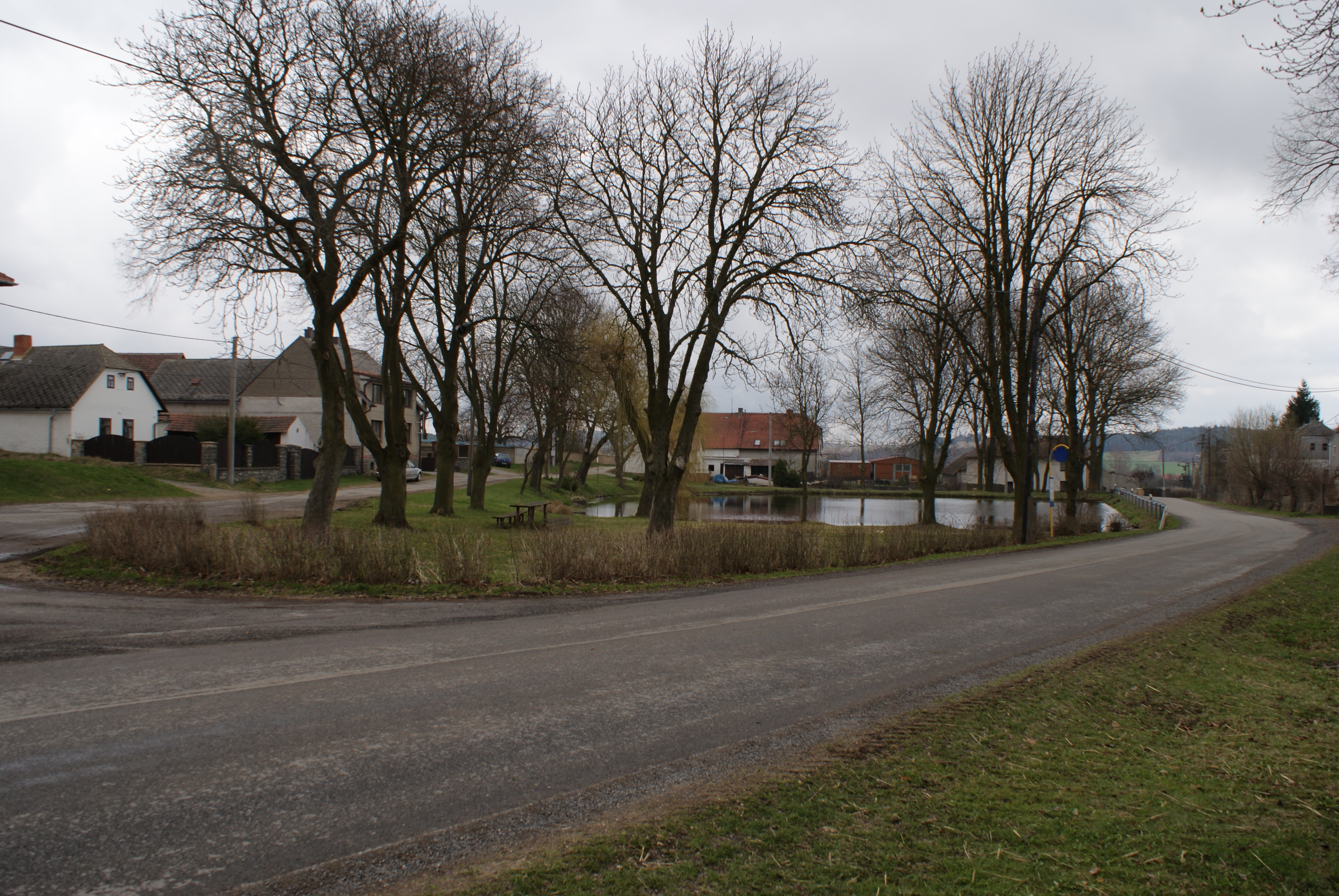 Tušovice, a village in Příbram district, Czech Republic, the village common. Česky: Tušovice, okres Příbram, náves